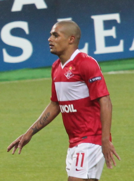 Welliton